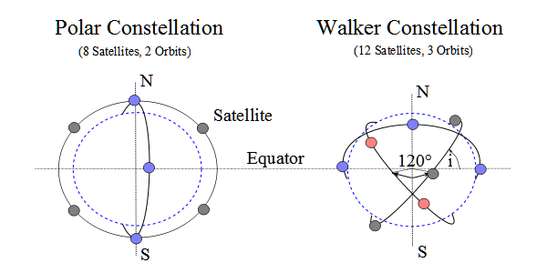 Example sketch of a Walker Delta Pattern and polar Constellation.